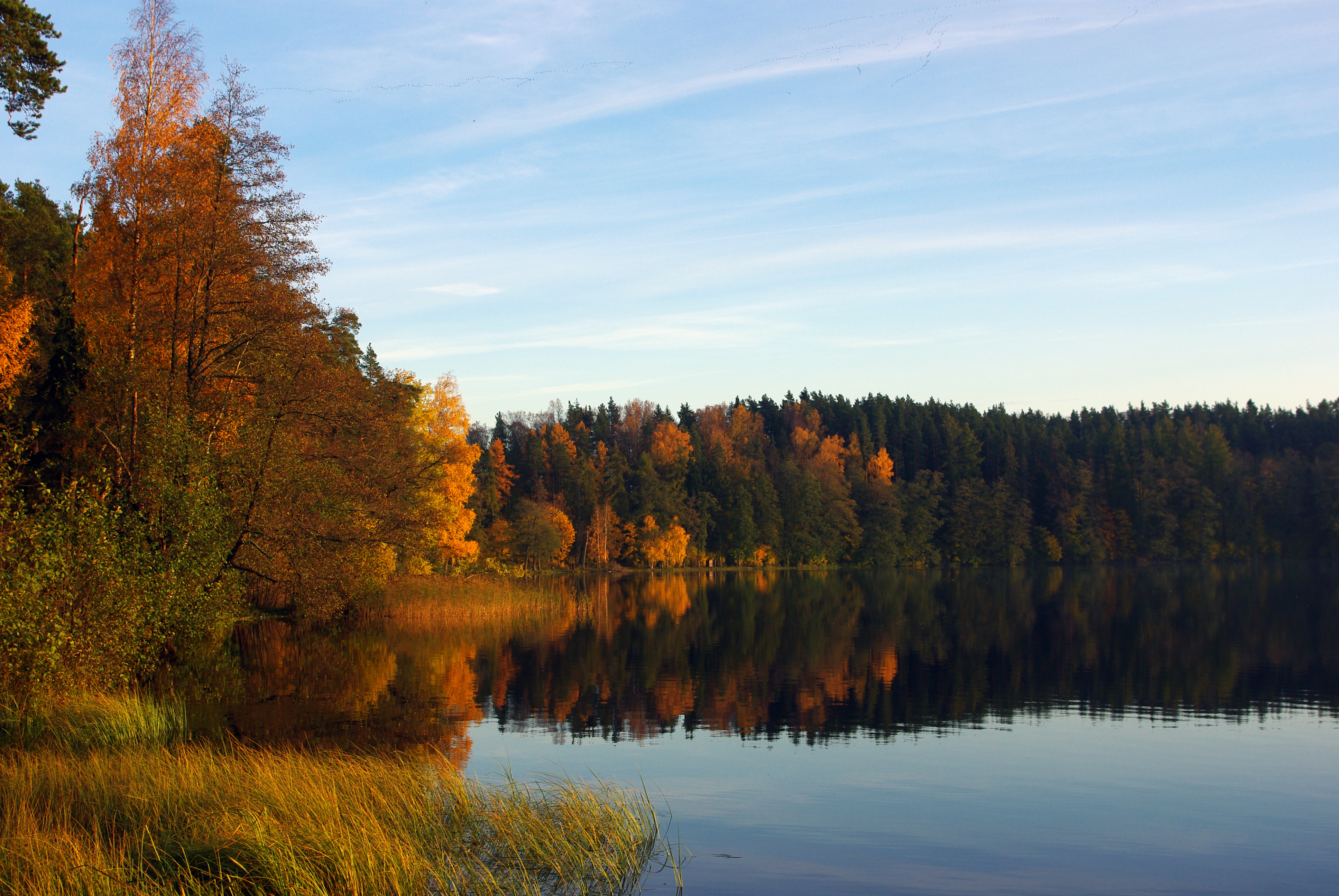 lake Uljaste,Golden October